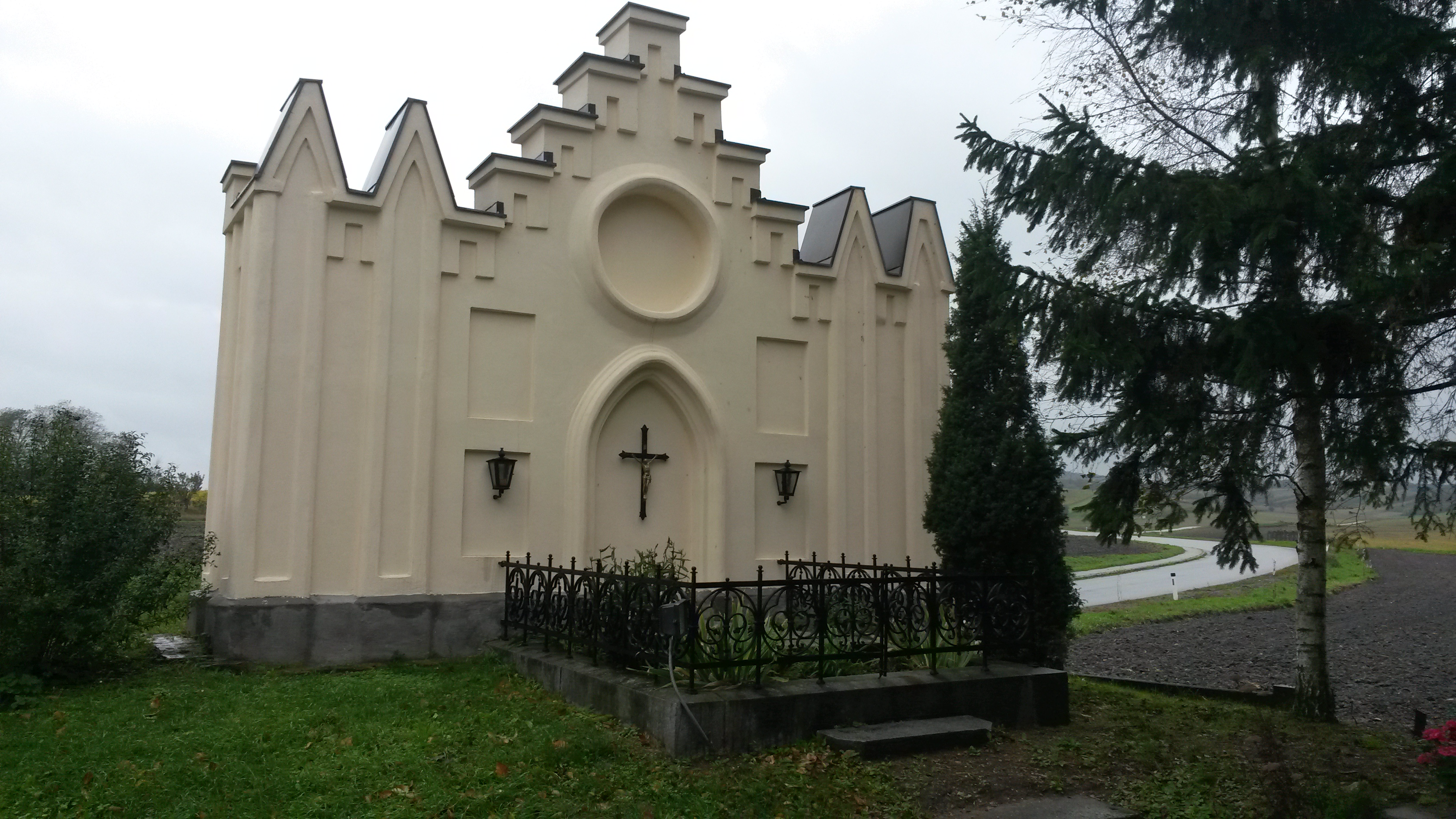 Koháry Gruft in Kleinhadersdorf bei Poysdorf